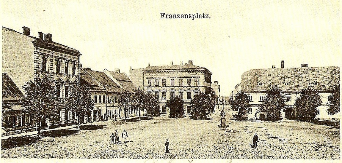 Bielsko-Biała, Poland. Wolności Square in 1901.